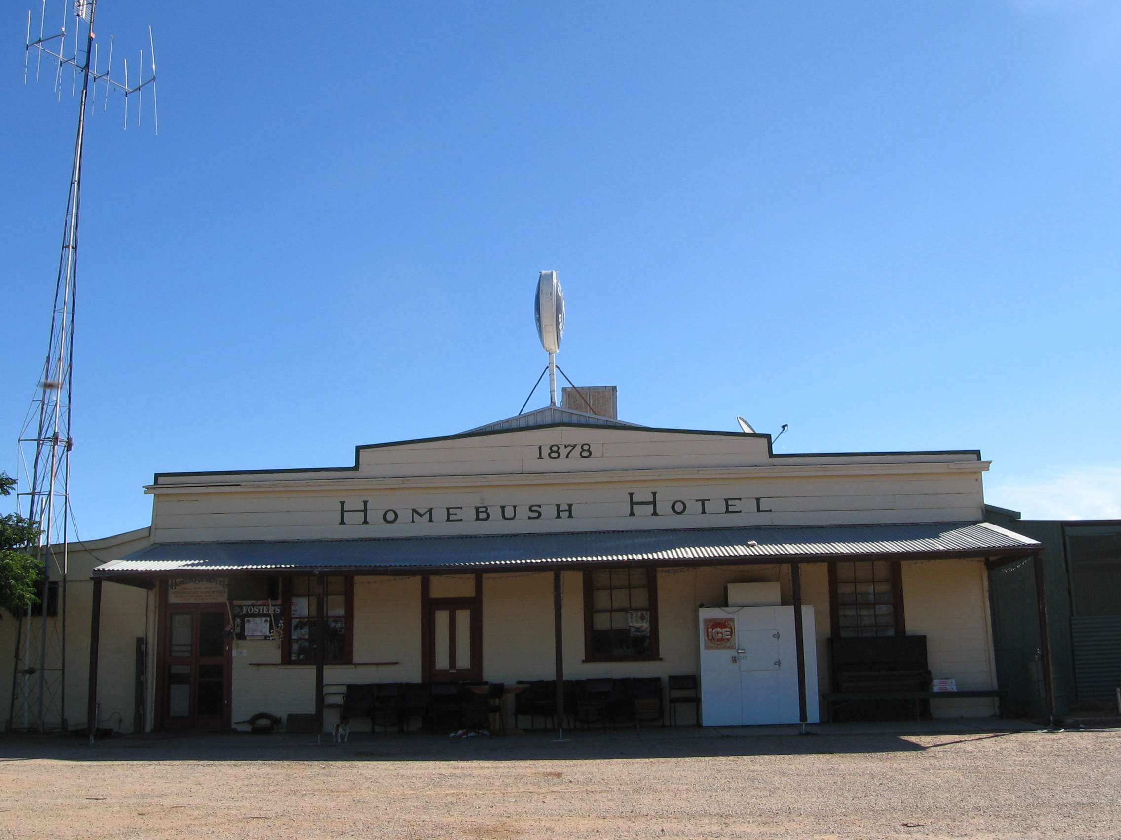 Homebush Hotel at Penarie, New South Wales